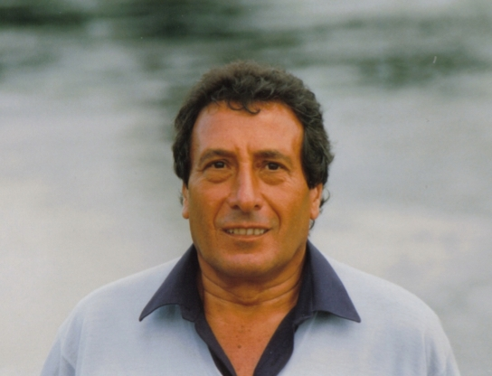 Miro Allione, italian manager, professor and writer.